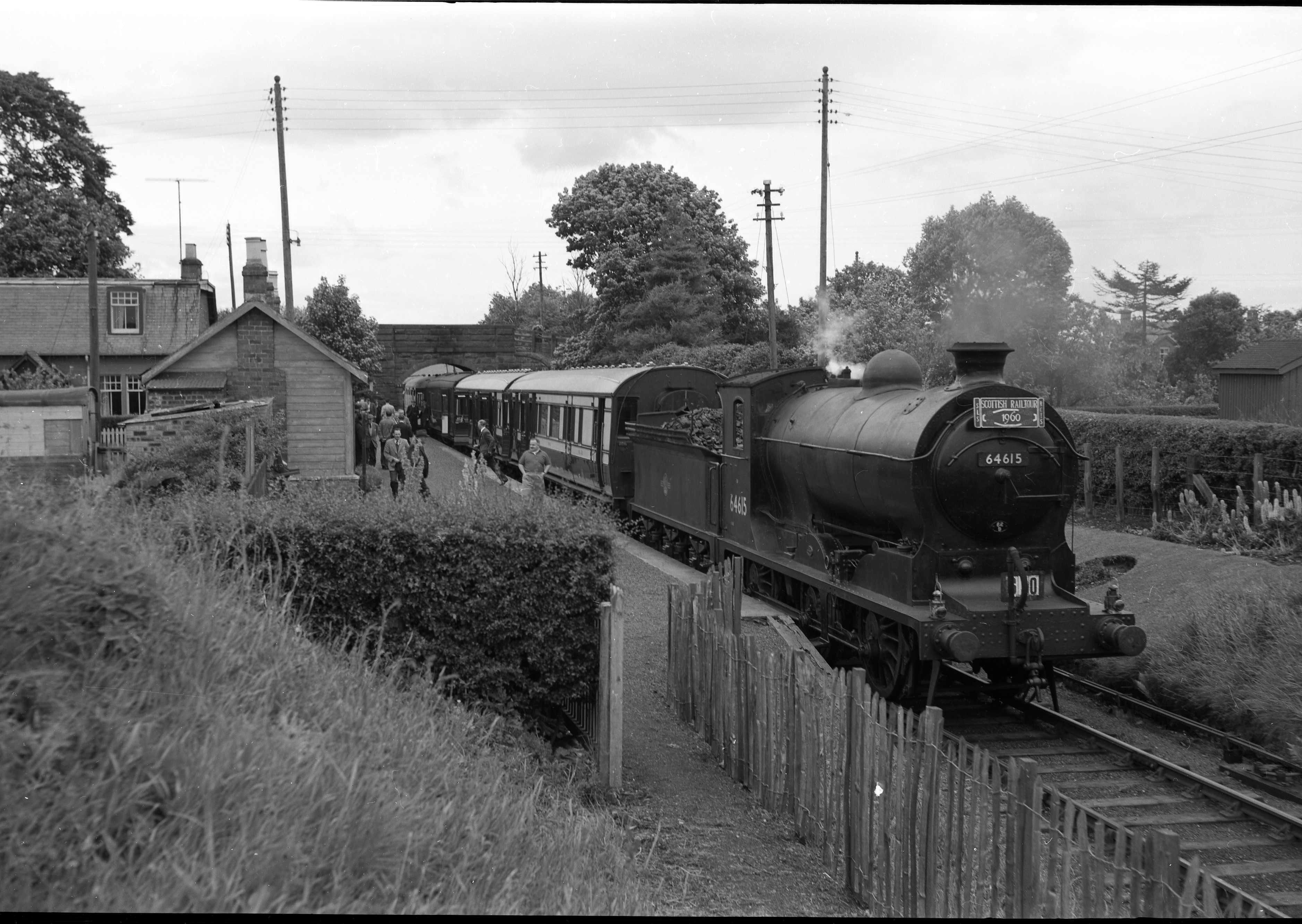 St Cyrus railway station with Scottish Railtour in 1960